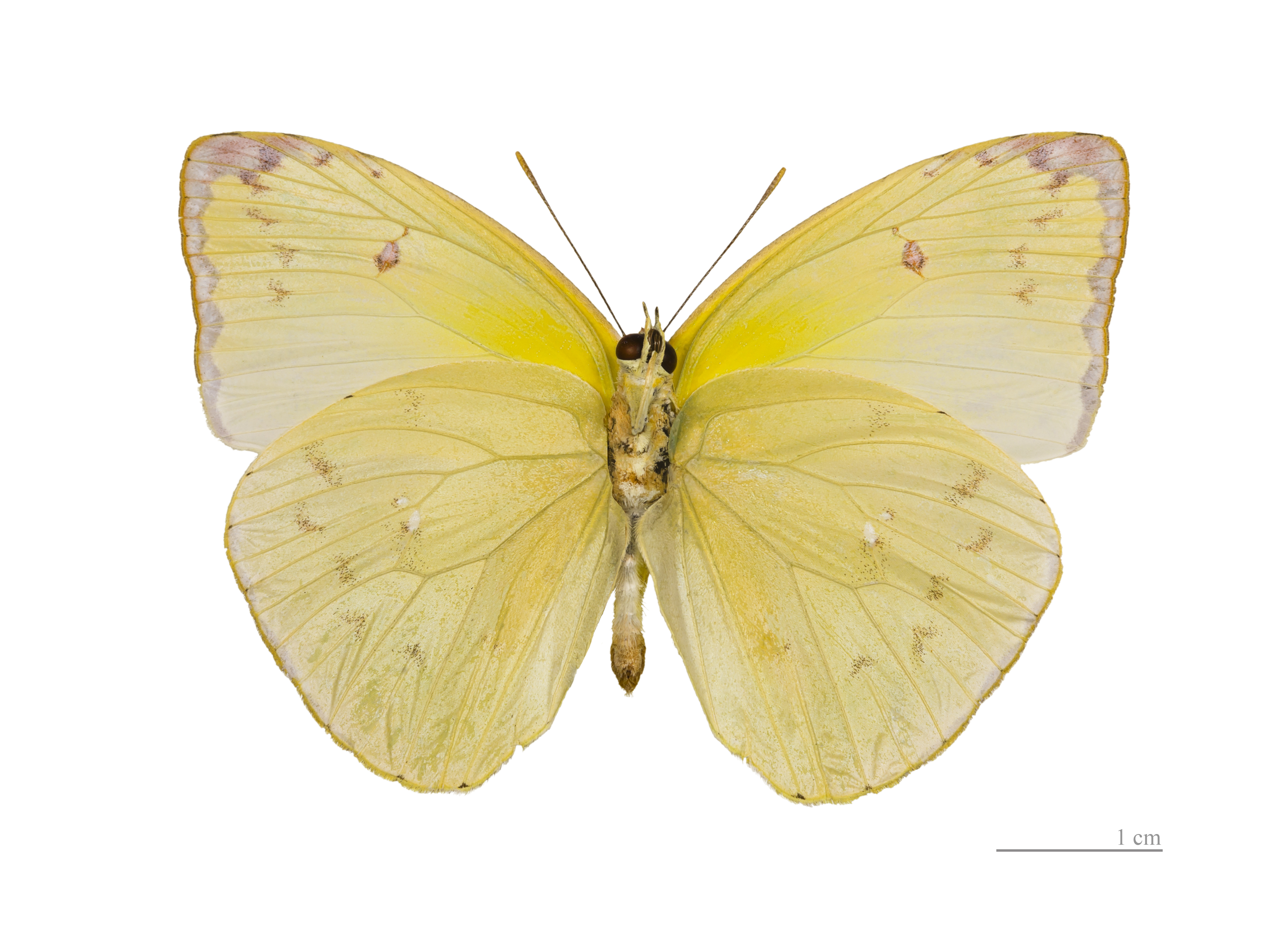 ♀ - △ Ventral side Locality: Santarém Pará, Brazil (Type species).